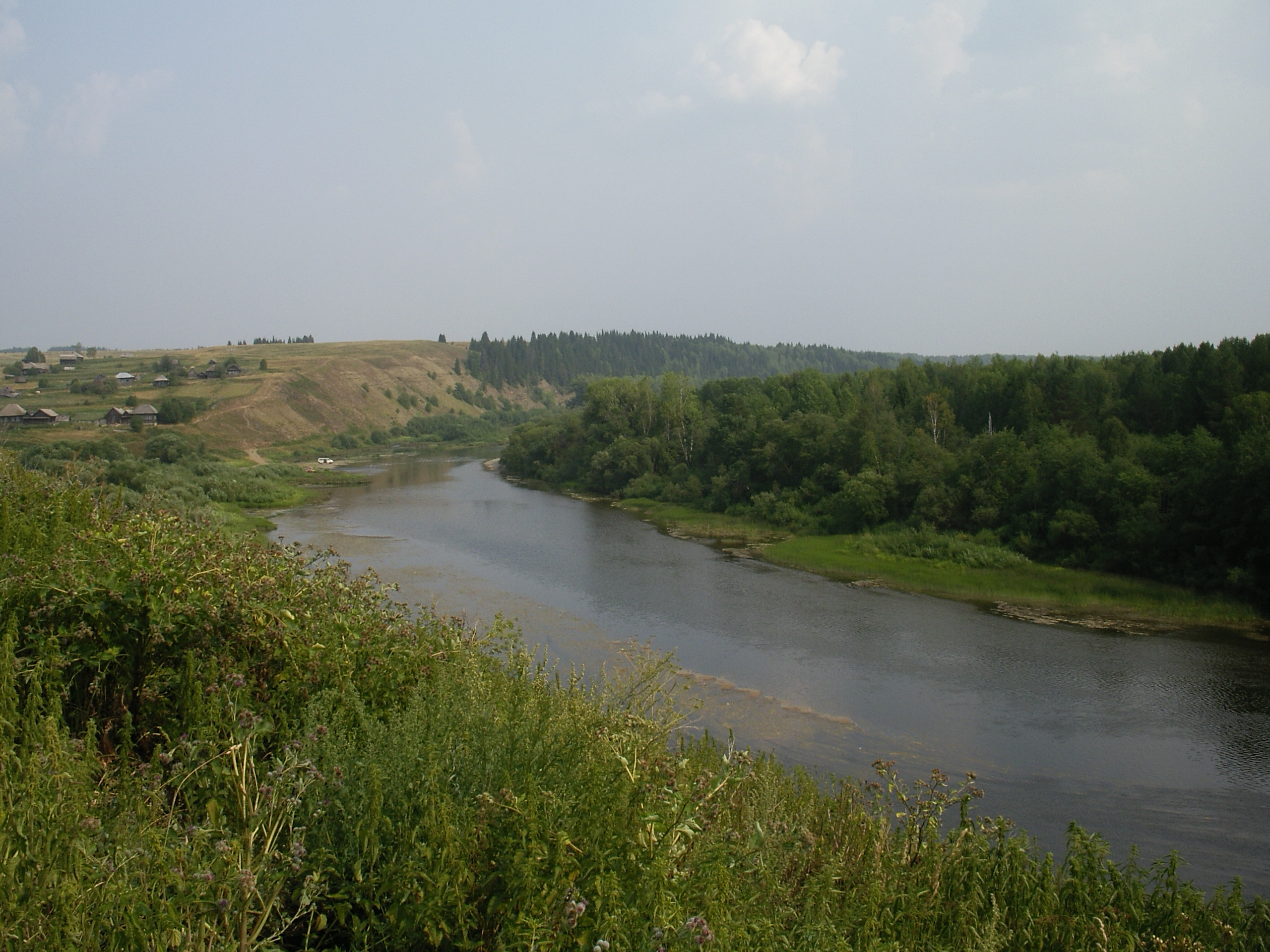 Sylva River in Molyobka